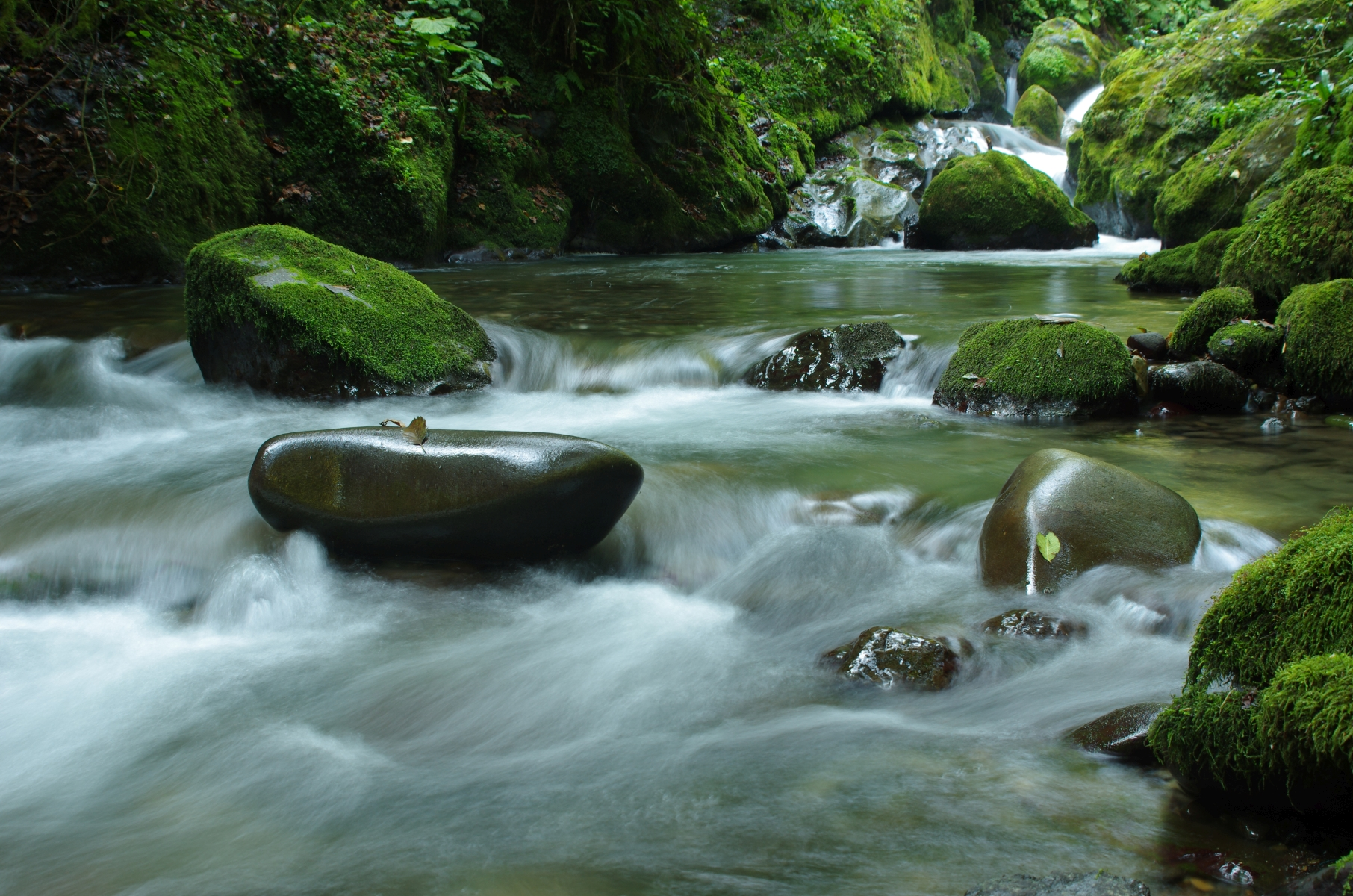 Stream in Borjomi NP